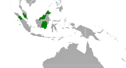 A distribution map for the cicada species T. speciosa, with national borders added